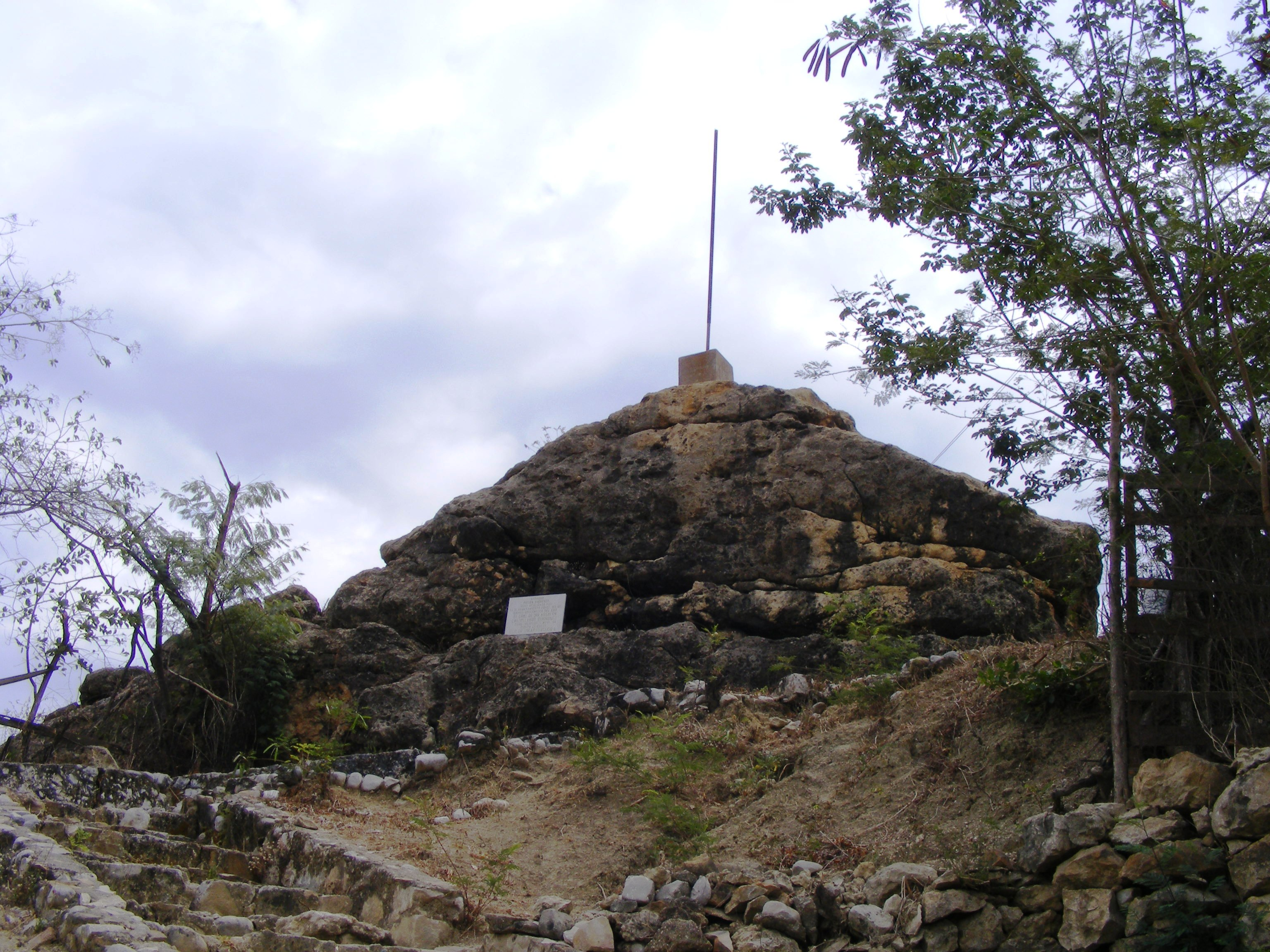 Fort of La Piedraorcada.